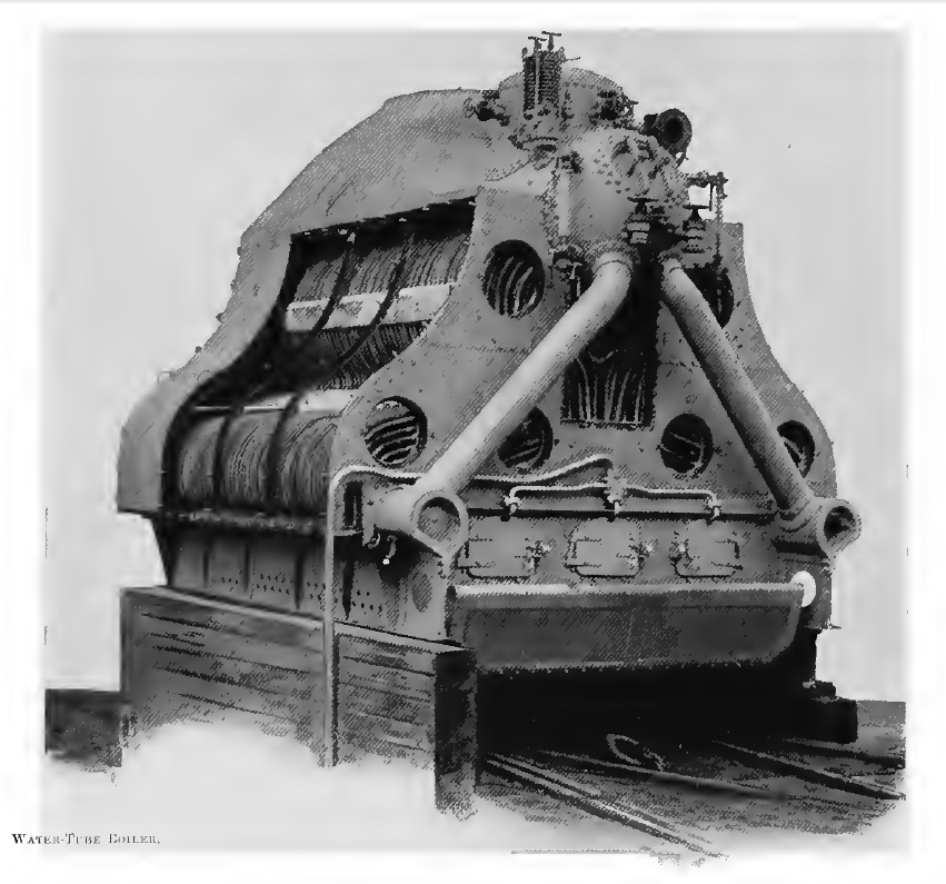 Reed water tube boiler of about 1900 built by Palmers Shipbuilding and Iron Company, Jarrow, England. The incomplete casing reveals the internal arrangement of water tubes. Coal was fed into the boiler through the three hatches on the side nearest the viewer. "A speciality of [Palmers' engine works] is the manufacture of the "Reed" water-tube boiler, the invention of Mr J. W. Reed, manager of the engine works department, which has been adopted with well-known results in ... high-speed [torpedo boat destroyers] ..., and also in vessels constructed for the Admiralty on the Clyde. It may be observed that nearly 25 miles of tubes are used in the manufacture of the boilers and machinery of each 30-knot destroyer." (Dillon (1900) pp. 33–4)